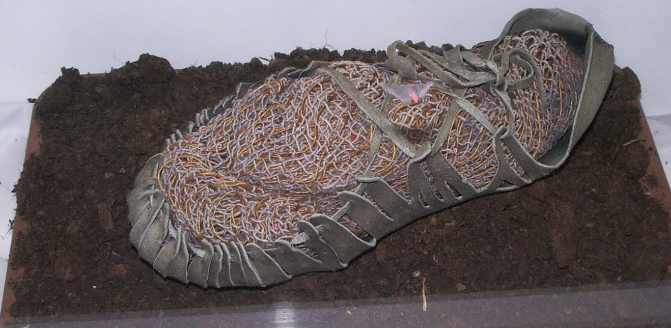 Replica of the shoe from Utersen